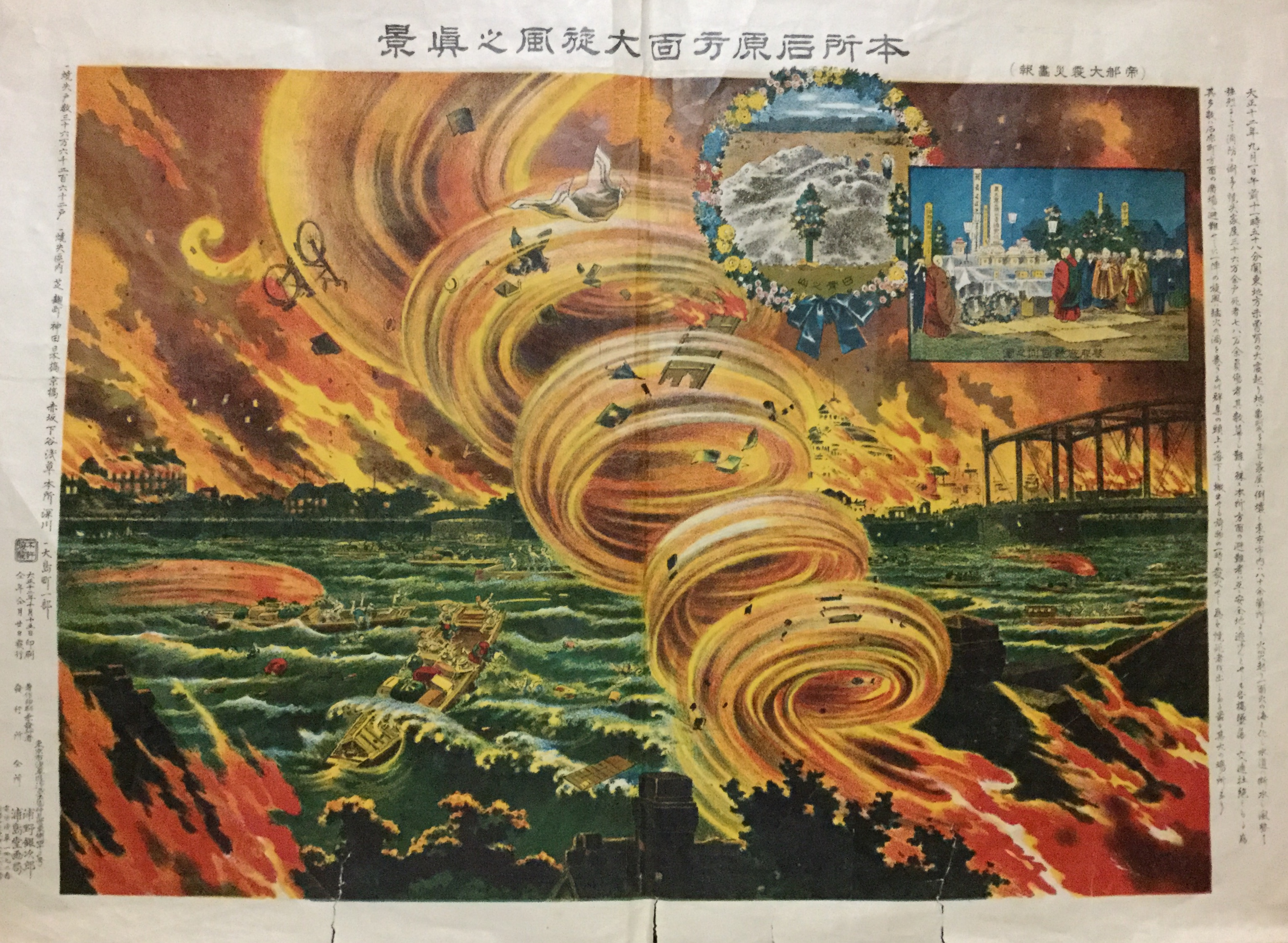 A scene of fire spreading to the Twelve-story Tower in Asakusa Park and the Hanayashiki amusement grounds, The Great Kanto Earthquake of 1923